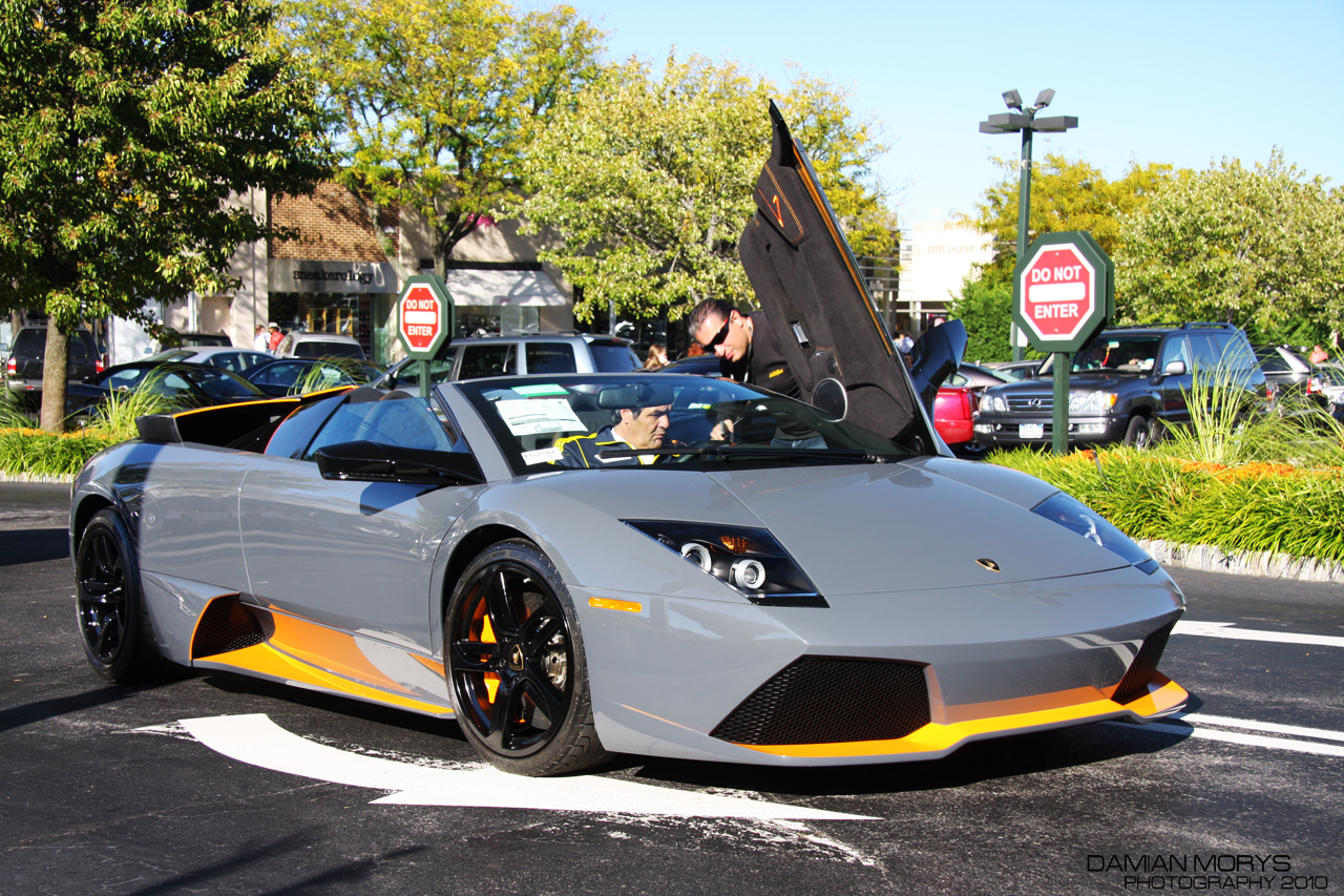 What a color combo...